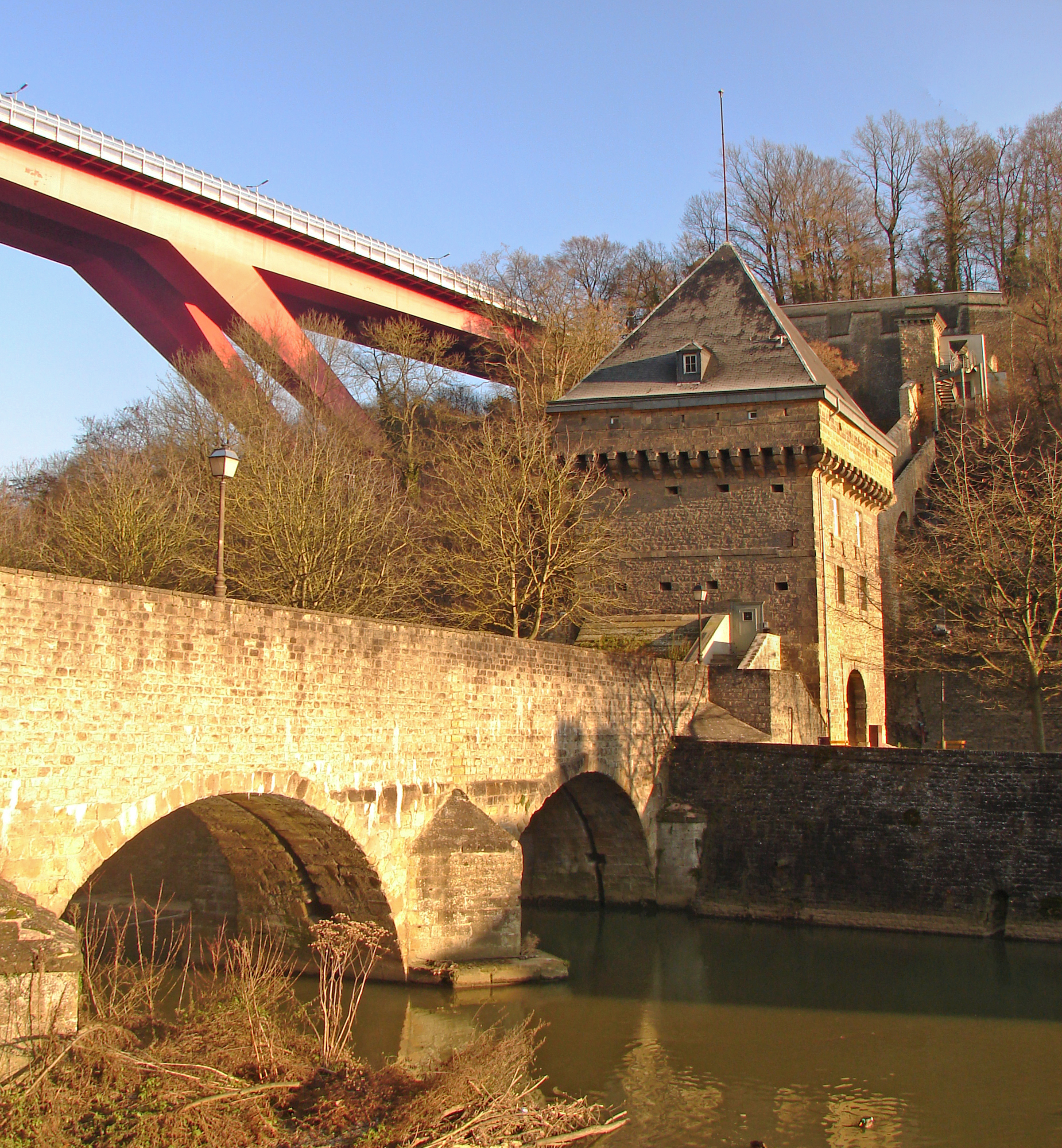 The fortifications of Luxembourg city (Pfaffenthal)